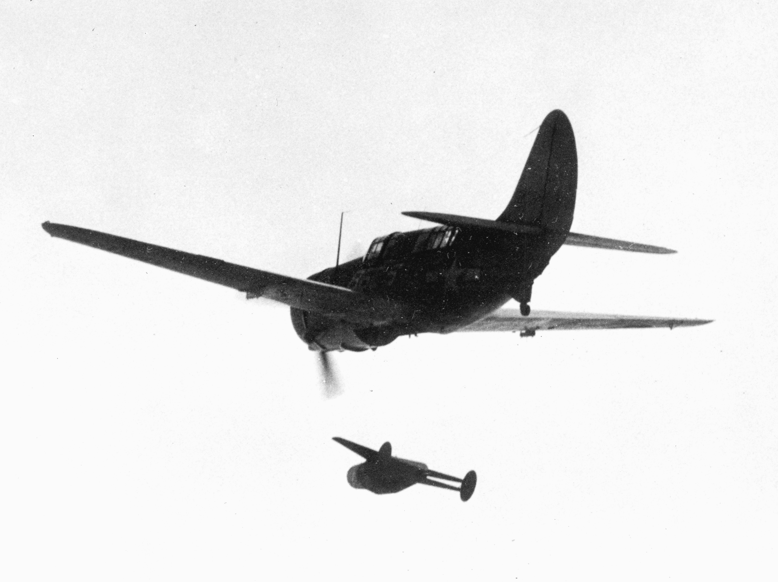 A U.S. Navy Curtiss SB2C dropping an ASM-N-2 Bat guided bomb.